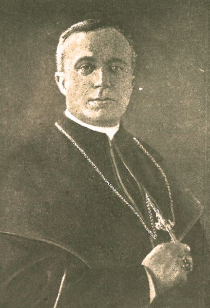 portrait of Bishop Ceretti, OMV